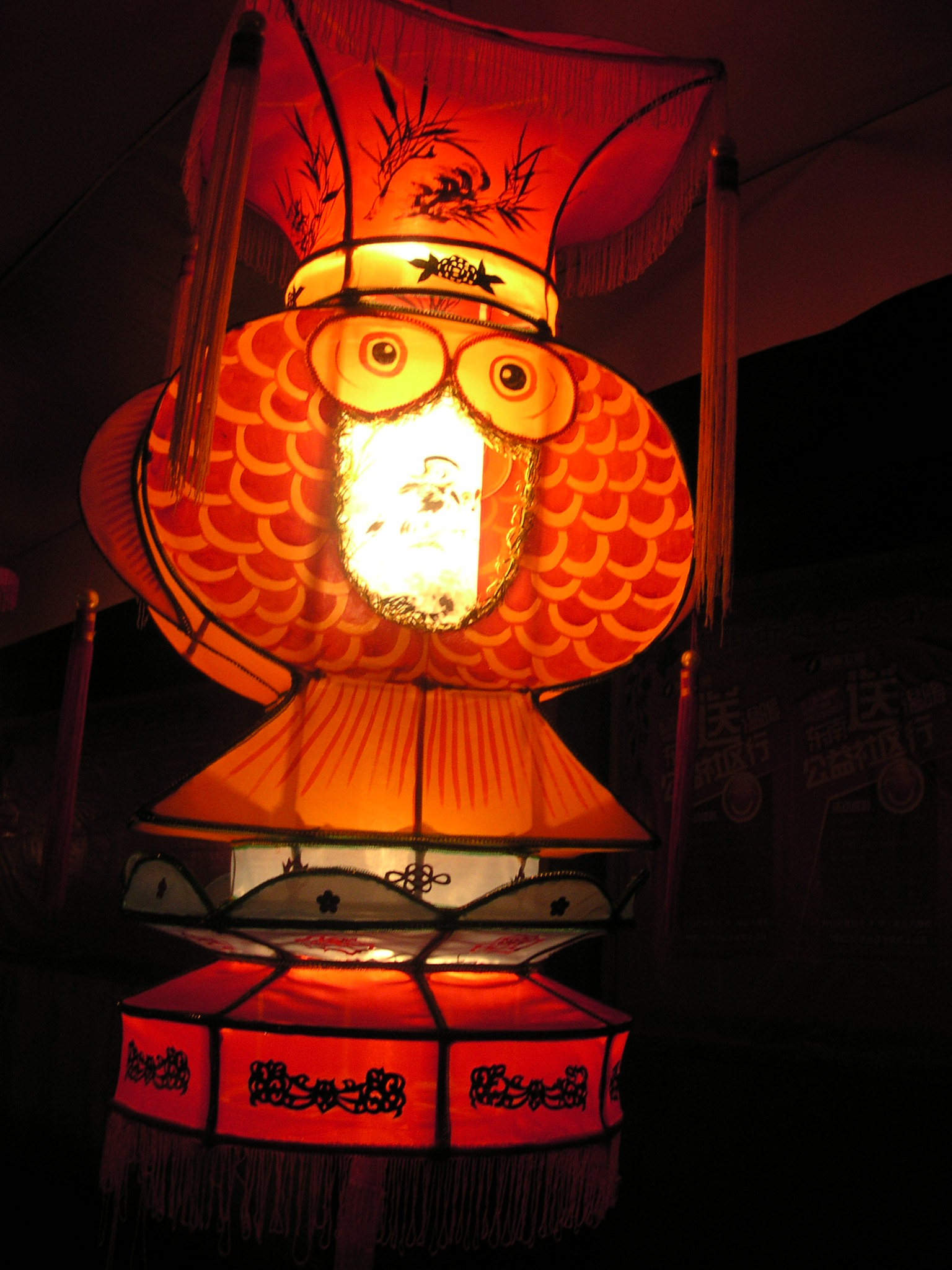 Traditional light for chinese Lantern Festval